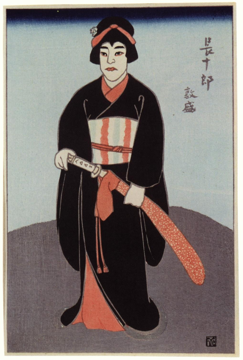 Colour woodblock print of the kabuki actor Sawamura Chōjūrō as Taira no Atsumori. From the series "Sōga butai sugata ("Stage Figure Sketches"). Designed by Kanae Yamamoto and carved by Iguchi Minoru. 26 x 19.2cm.